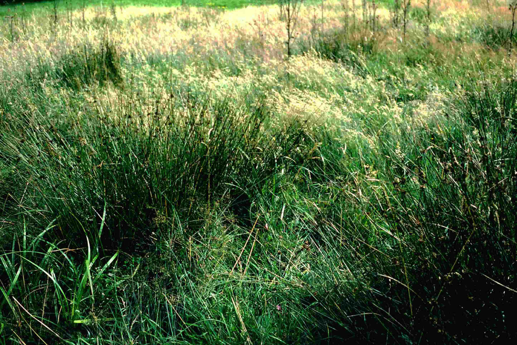 fallow land}